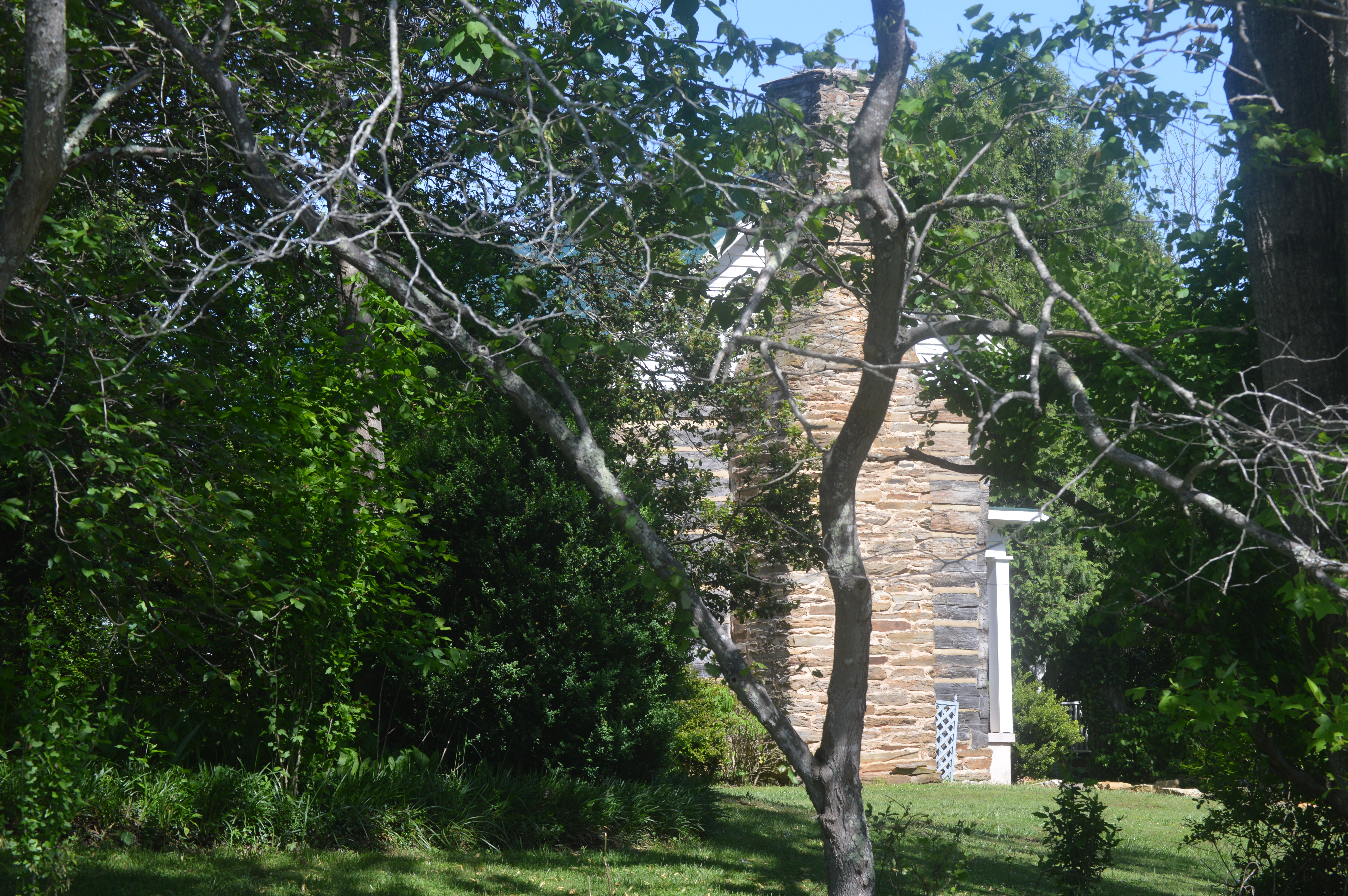 Through-the-trees view of the Old Turner Place, located on Henry Road just west of Henry in Henry County, Virginia, United States. It is a log cabin, although the trees surrounding the house give little opportunity for any view except this one, which shows primarily the sandstone chimney at the end of the house. Built before 1805 (perhaps as early as 1783), it is listed on the National Register of Historic Places.